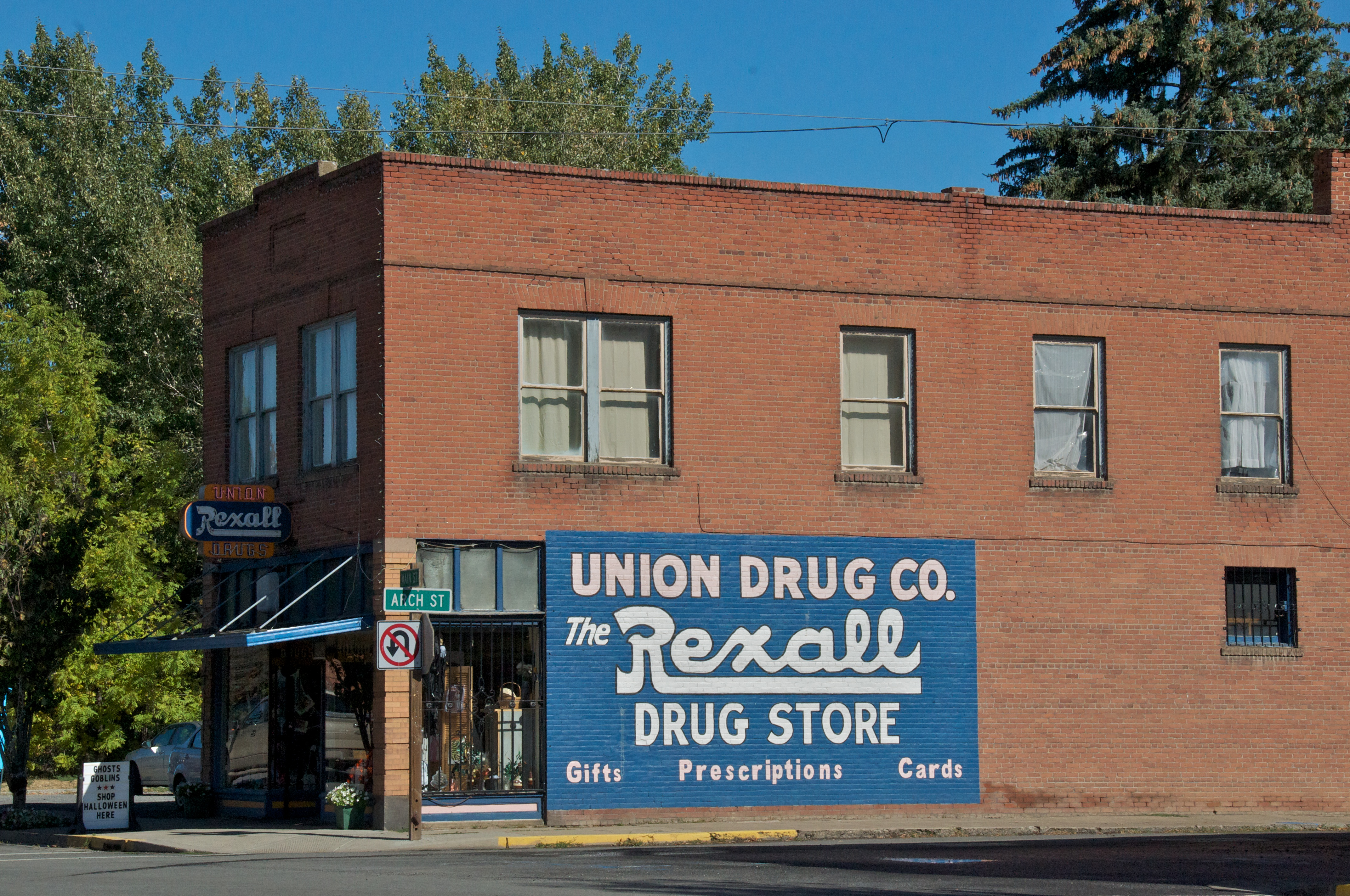 Rexall Drug Store, Union, Oregon